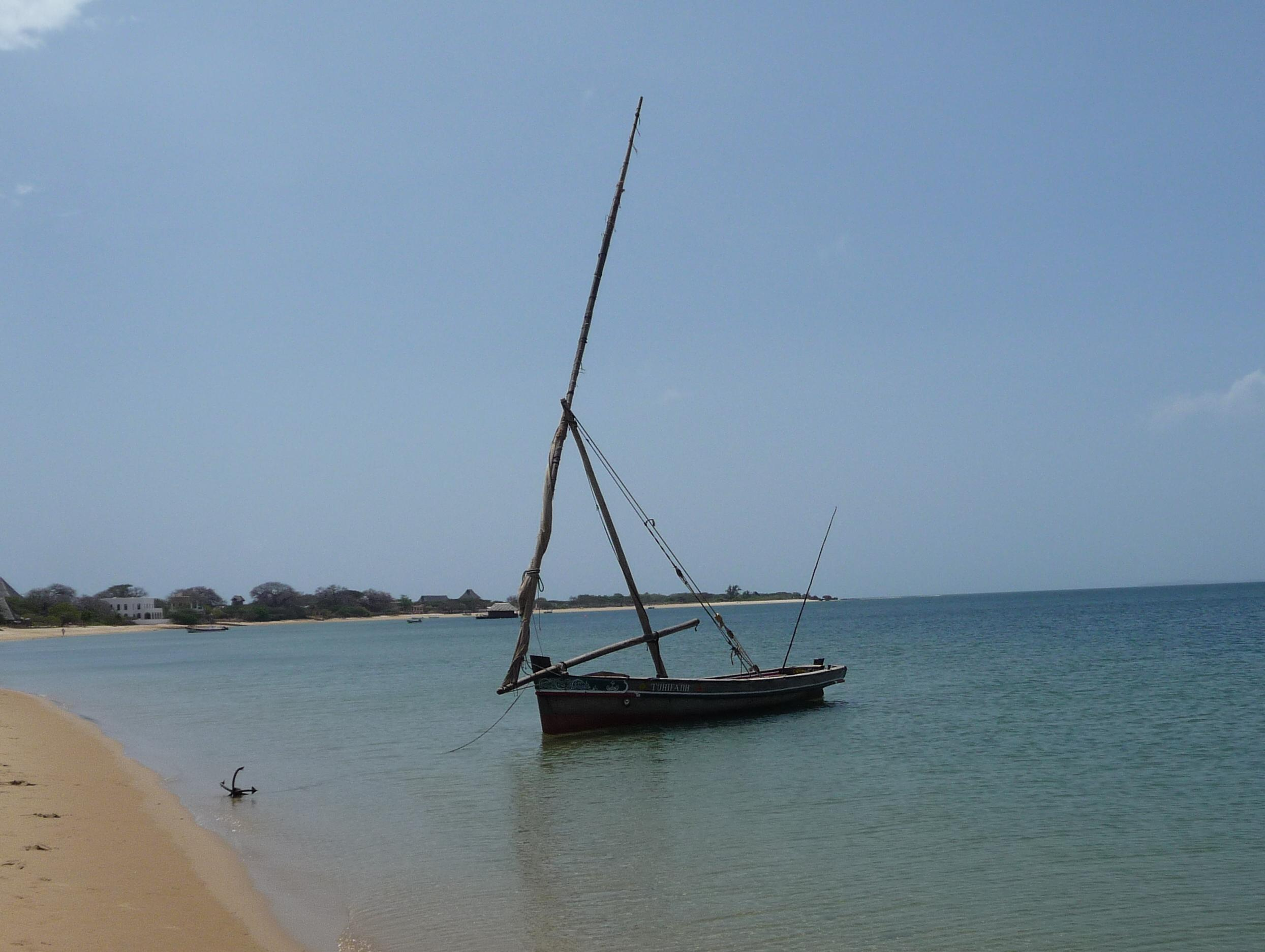 Lamu style Kijahazi (type of East African dhow) at Manda Island december 2008.